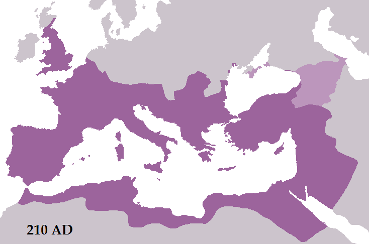 The Roman Empire in 210 AD after the conquests of emperor Septimius Severus. Roman territory is dark purple, Roman dependencies are in light purple. There are two areas of Roman dependencies: the Bosporan Kingdom (top middle) and Armenia, Colchis, Iberia, and Albania (top right).